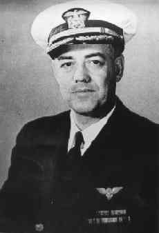 Arnold J. Isbell, United States naval aviator killed in World War II. The USS Arnold J. Isbell (DD-869) is named after him.